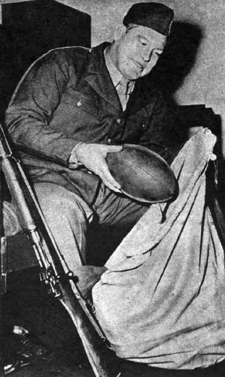 Bull Dog Turner at Army basic training